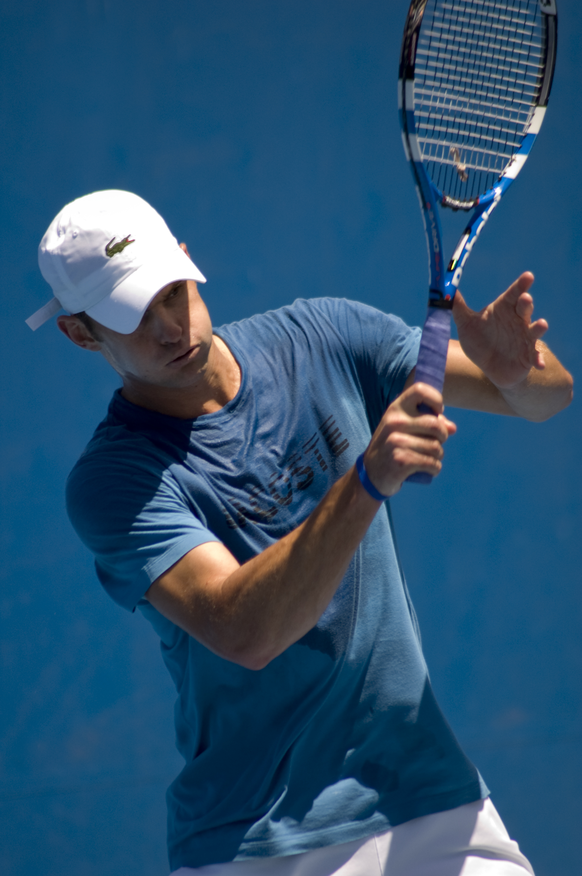 Taken at the Australian Open 2010